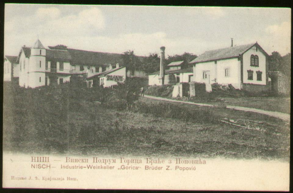 Tutunovic wine cellar, Niš, Serbia